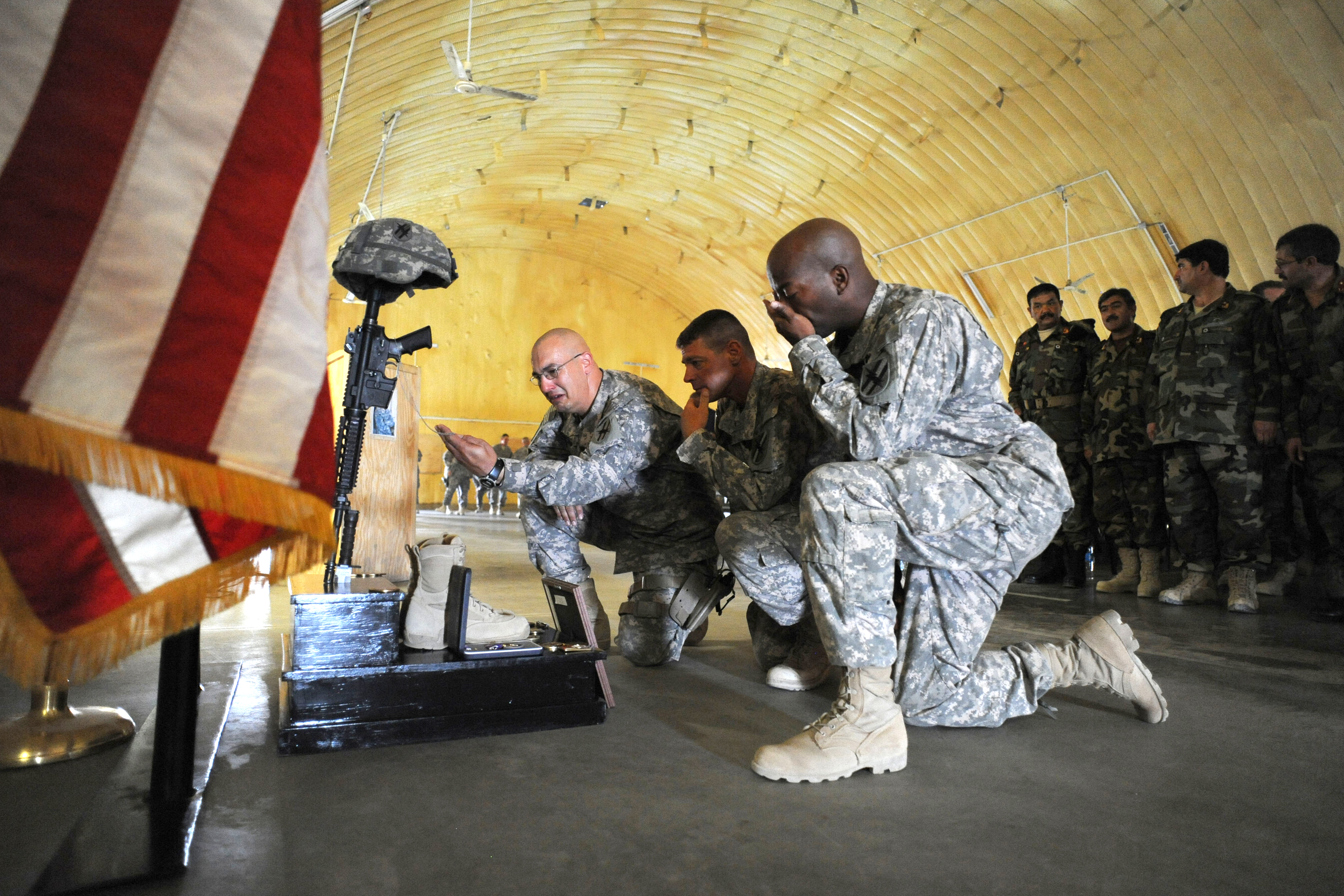 U.S. Soldiers from the Georgia Army National Guard's 1st Battalion, 21st Infantry Regiment, pay their respects during a memorial ceremony for Staff Sgt. Alex French IV at Camp Clark, Afghanistan, Oct. 4, 2009. French was killed in action by an improvised explosive device on Sept. 30, 2009. DoD photo by U.S. Air Force Senior Airman Evelyn Chavez See more at